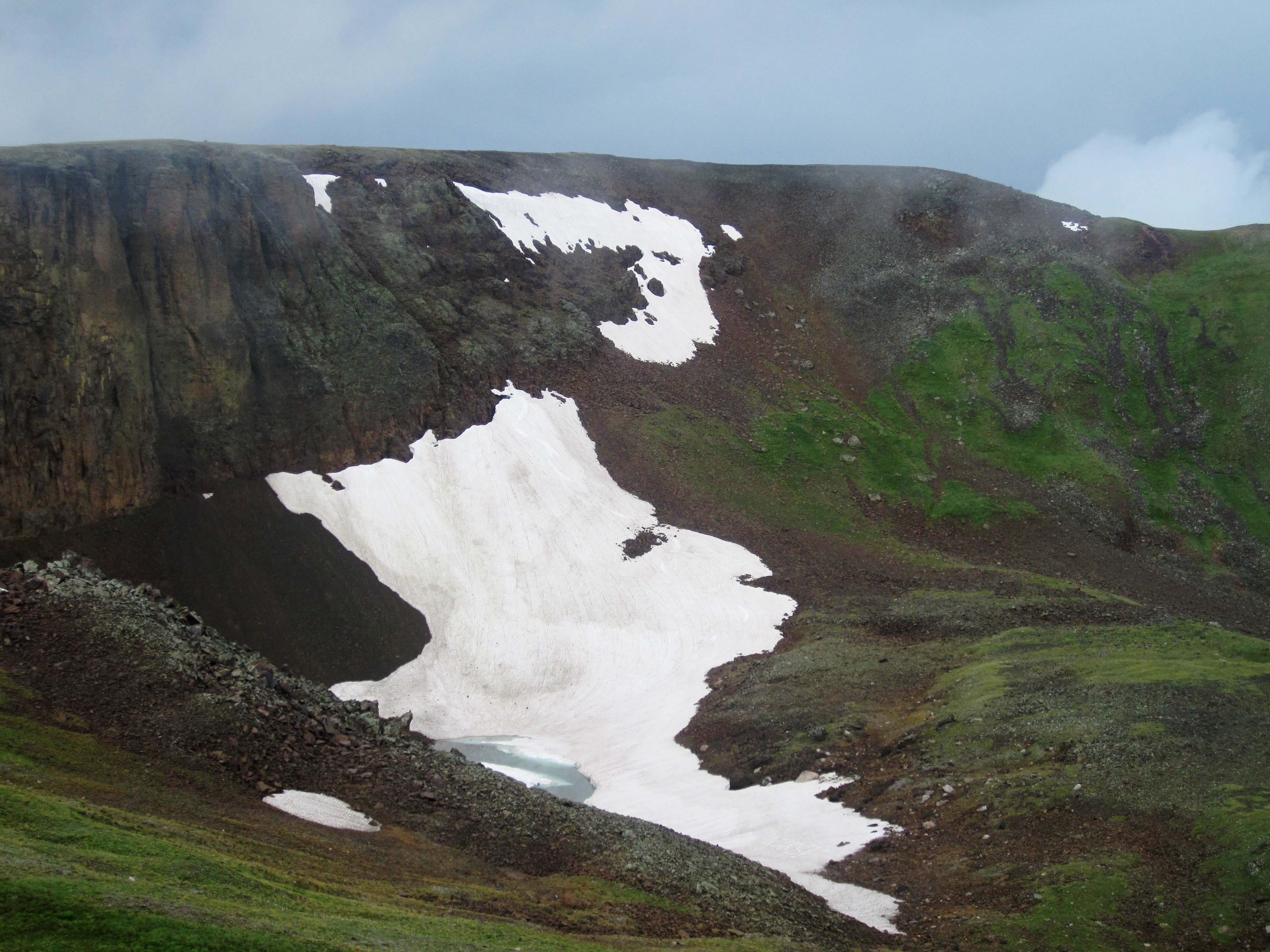 I took photo with Canon camera in RMNP, CO.